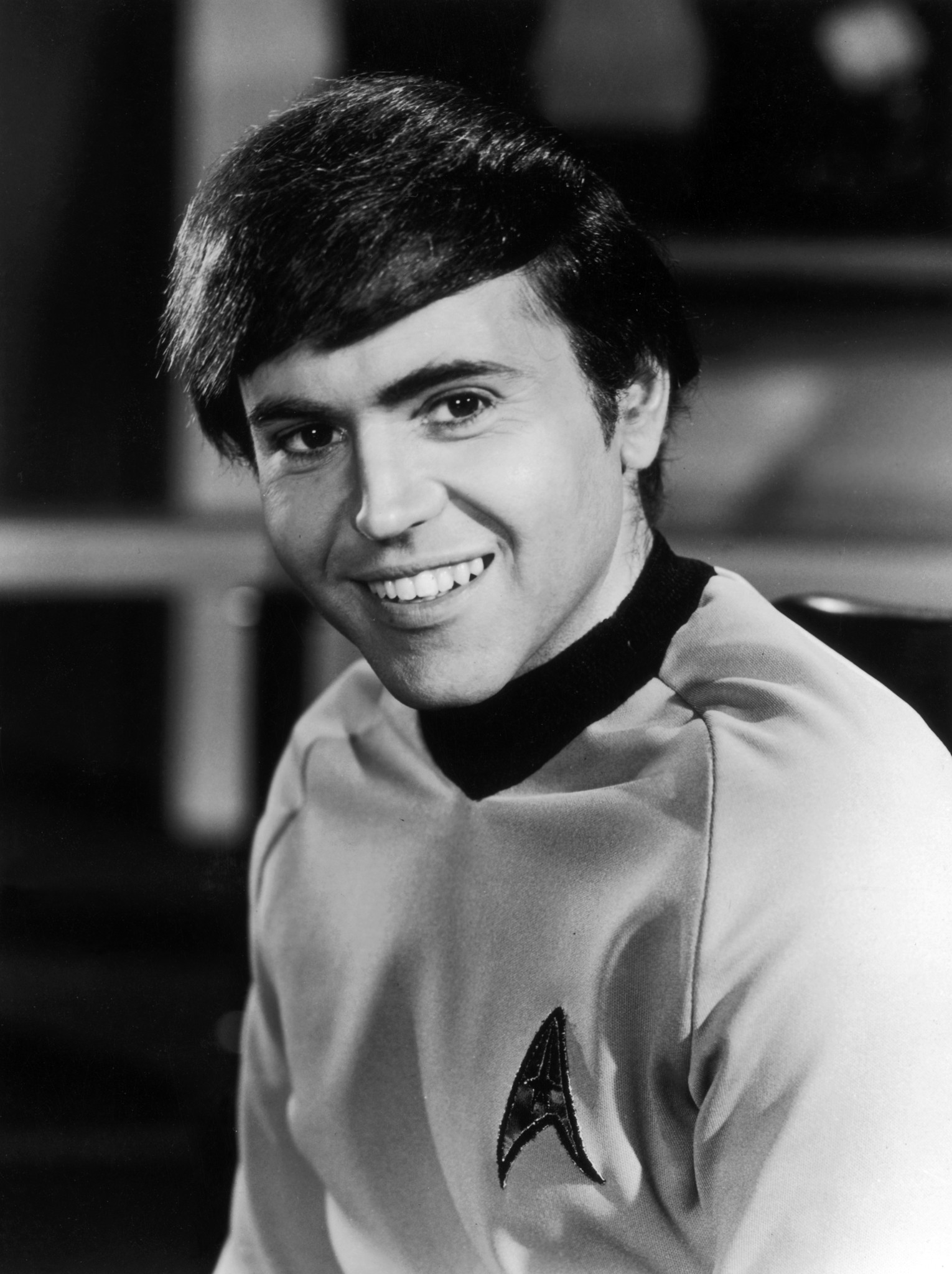 Publicity photo of Walter Koenig from the television program Star Trek.